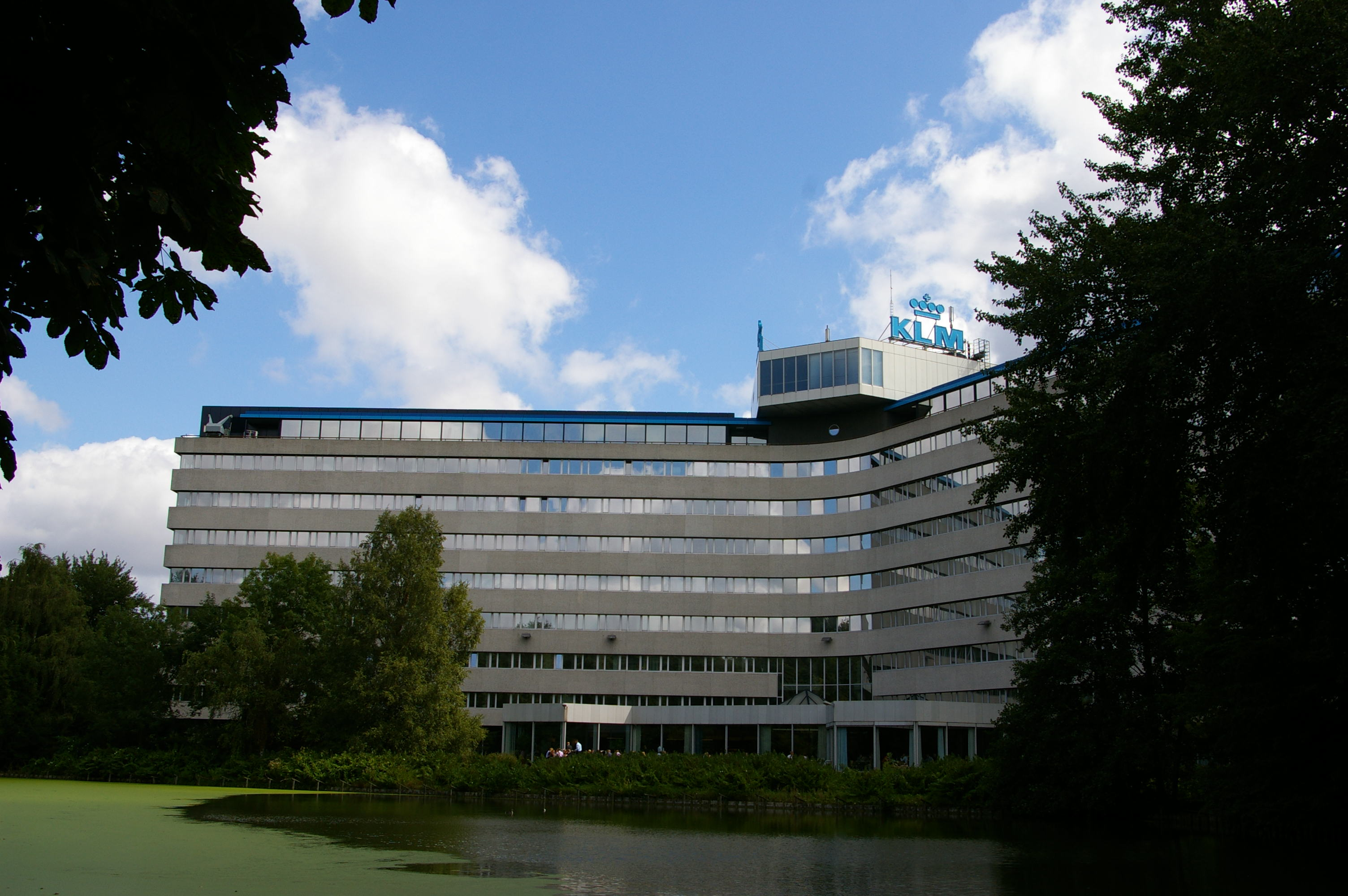 Head office of KLM airline in Amstelveen, the Netherlands. Picture taken on request of user WhisperToMe on the Dutch Wikipedia.